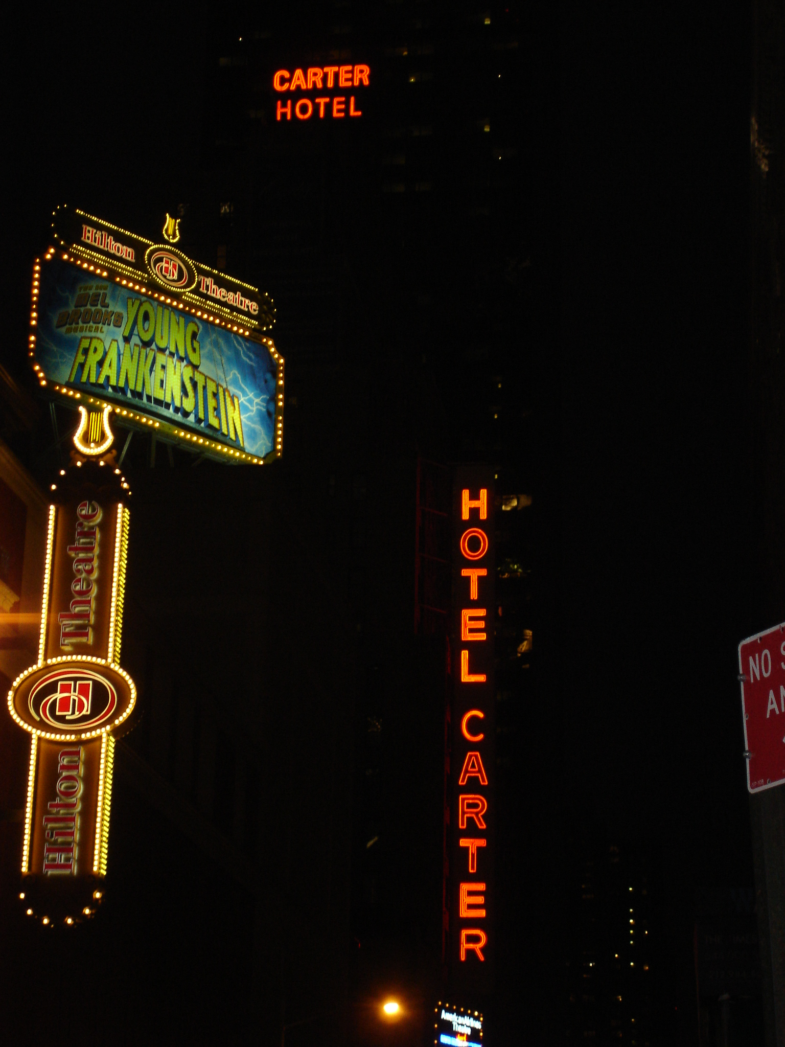 This photo is of Wikipedia Takes Manhattan location code 71, Hotel Carter, Manhattan.